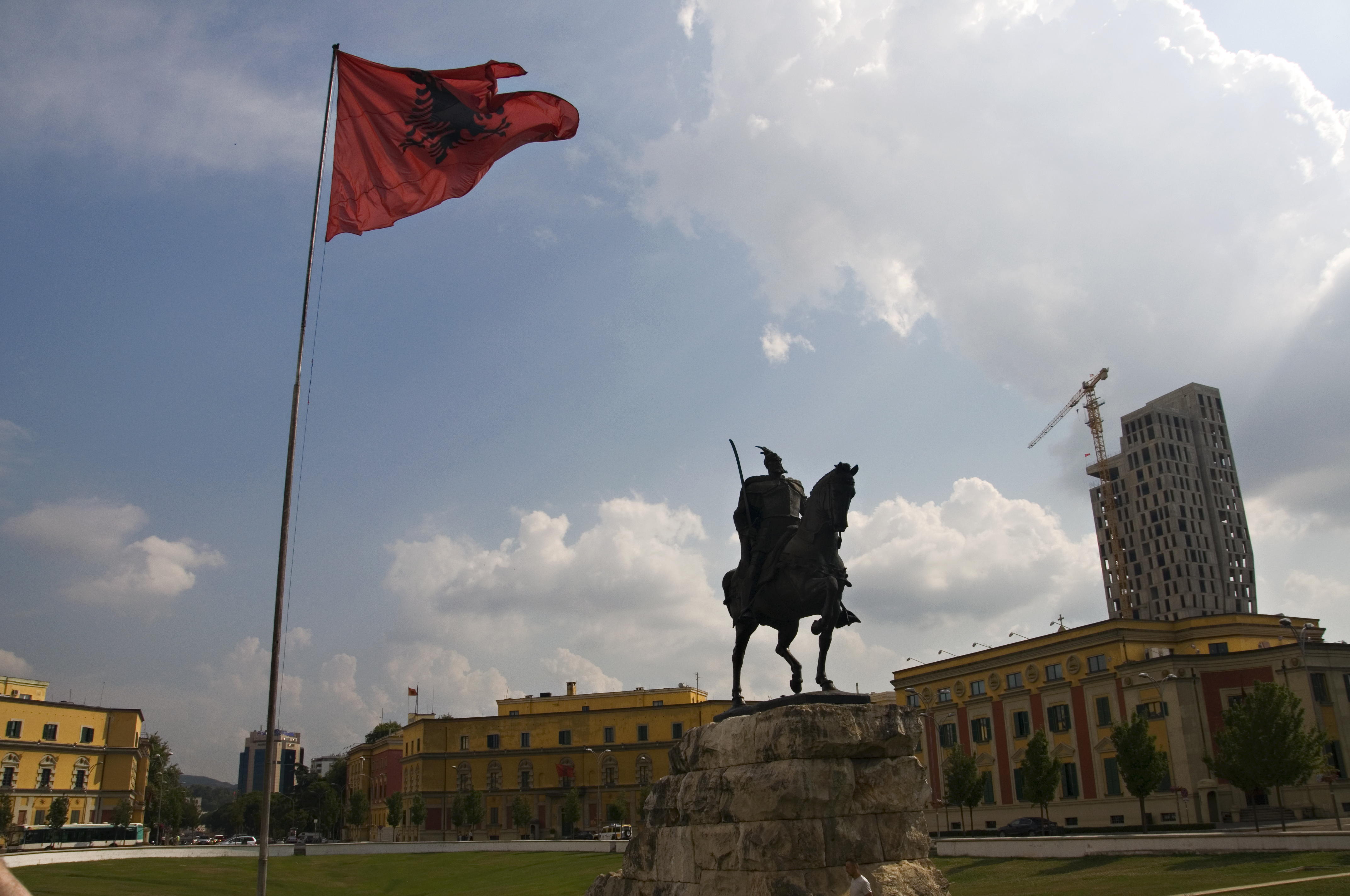 tirana skanderbeg place